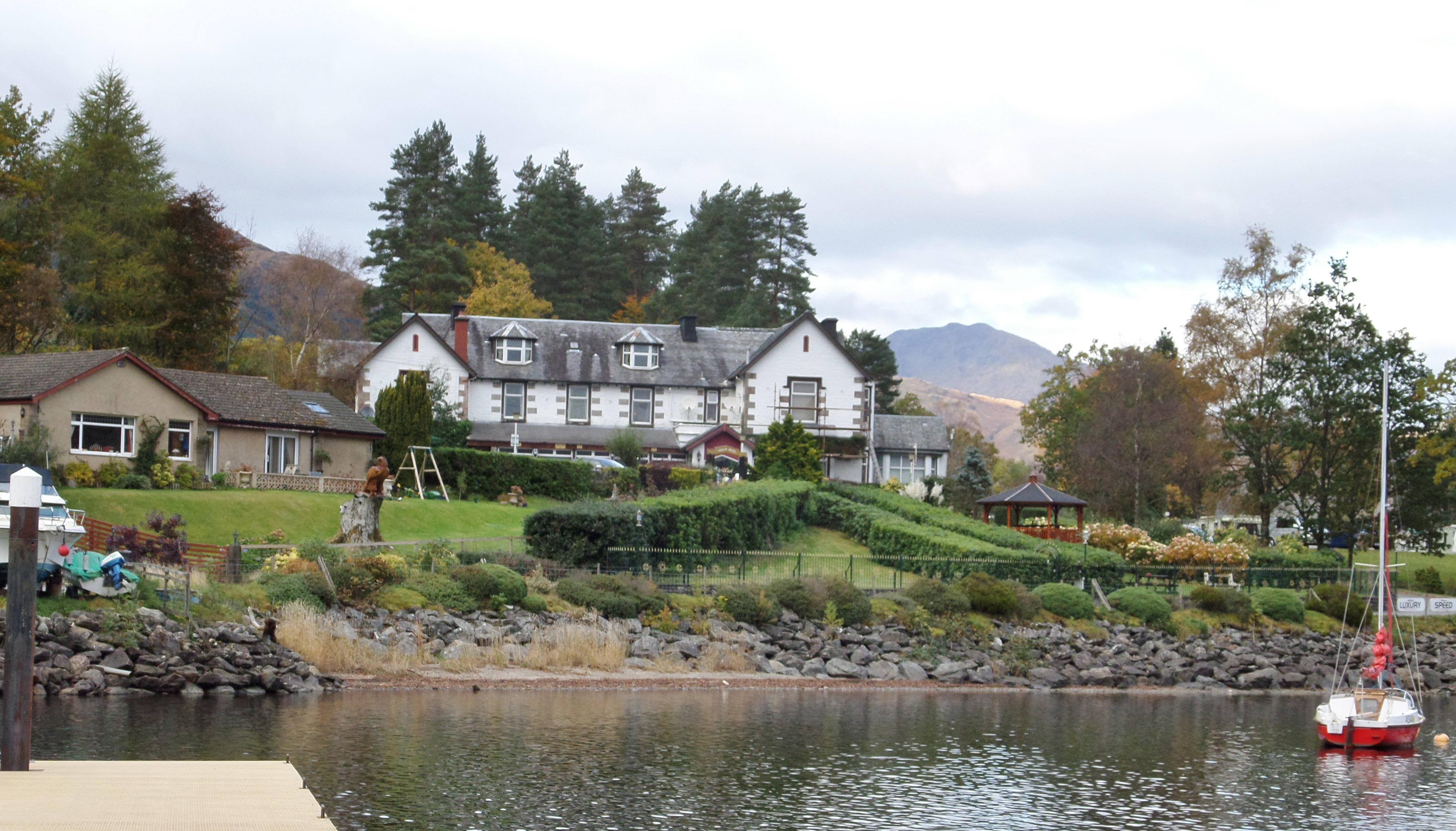 Ardlui Hotel, Ardlui, Loch Lomond, Scotland.